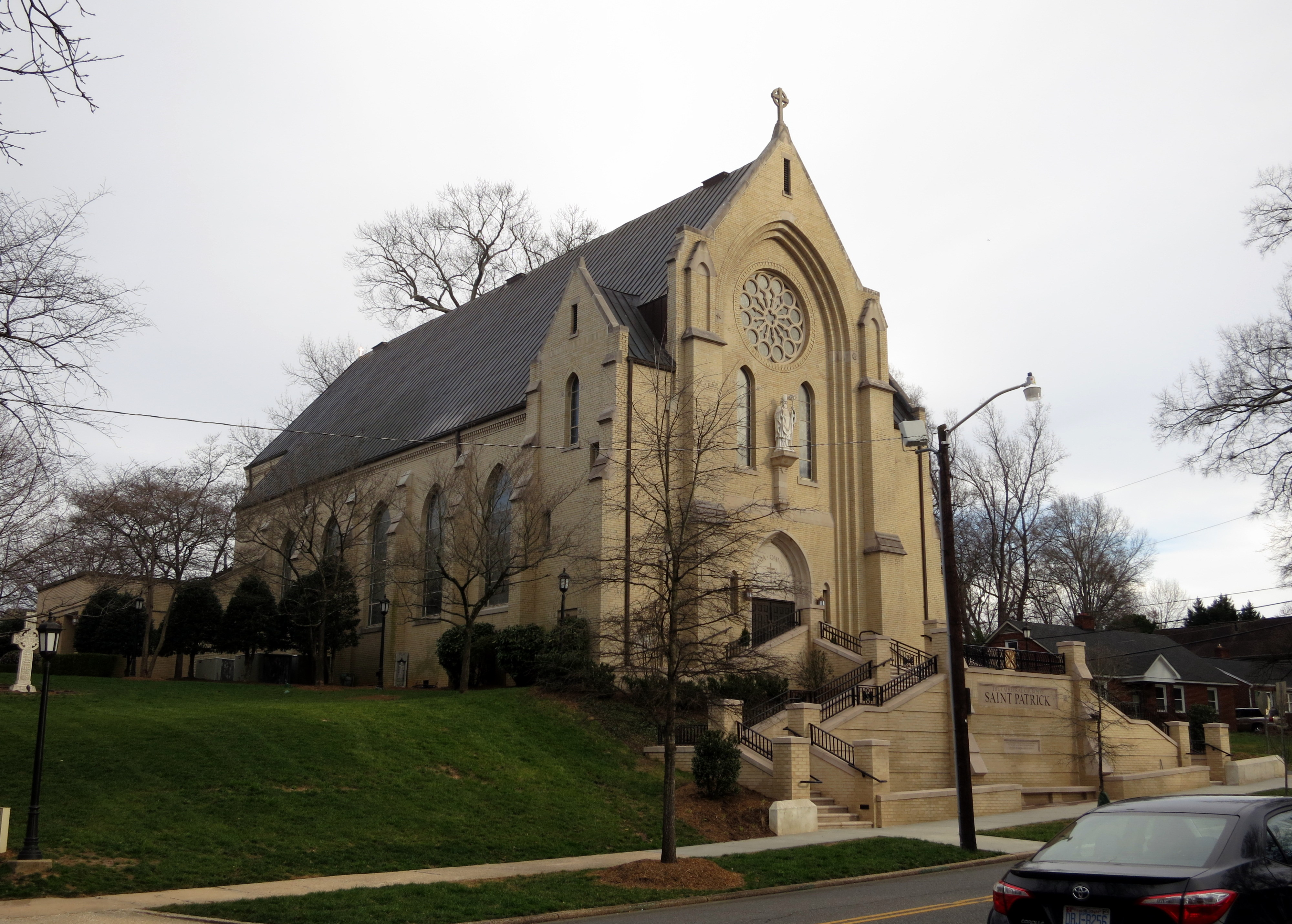 Cathedral Church of Saint Patrick (Charlotte, North Carolina) - exterior 2